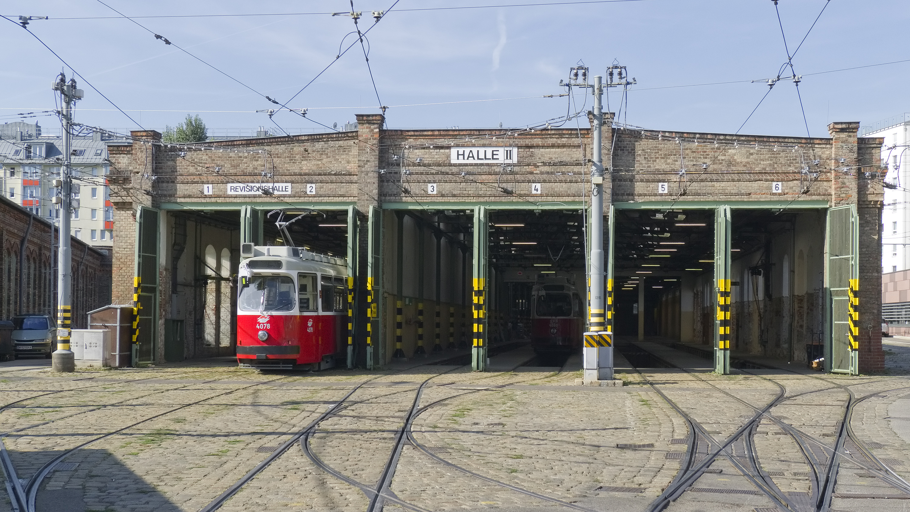 Tram depot Simmering, Vienna 11